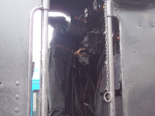 A steam train engineer refilling the lubricating oil circuit of a Friedmann Pump